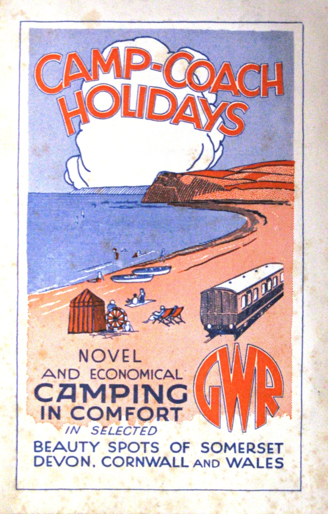 A Great Western Railway brochure advertising camp coach holidays.